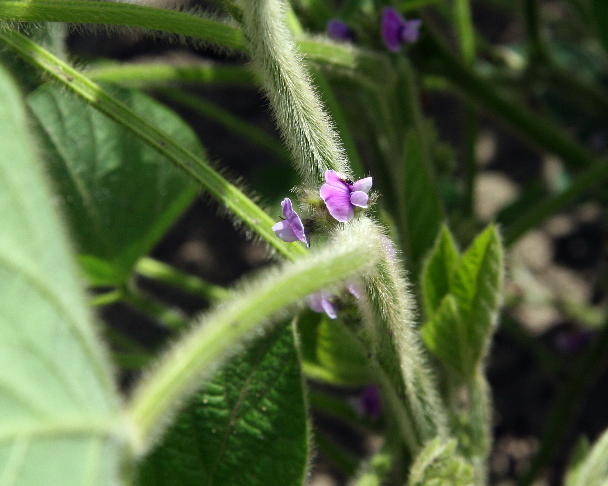 A small insect sits on the purple flower of a soybean plant near the town of Flora, Indiana.